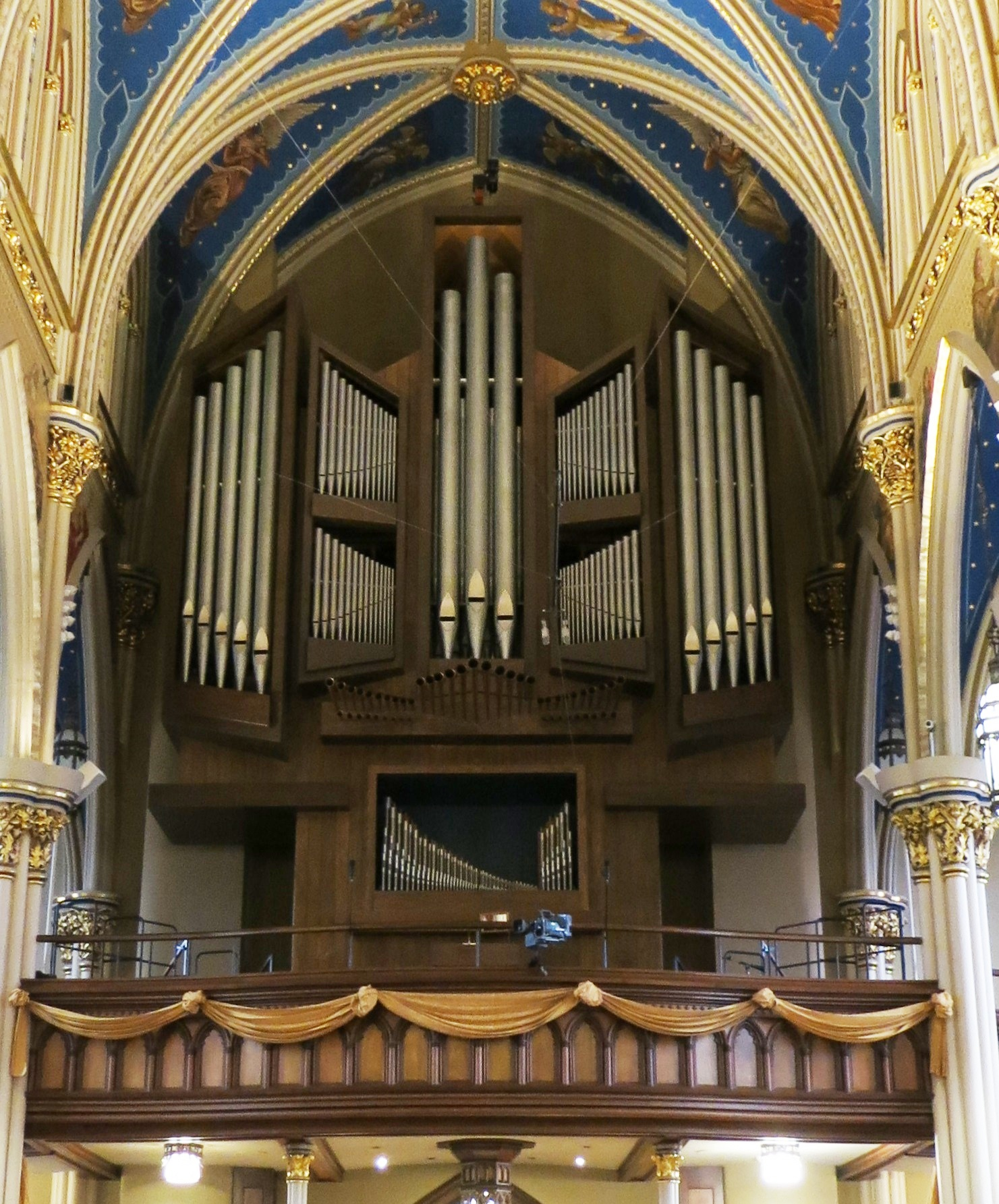 Basilica of the Sacred Heart, Notre Dame, IN: Holtkamp organ (1978)